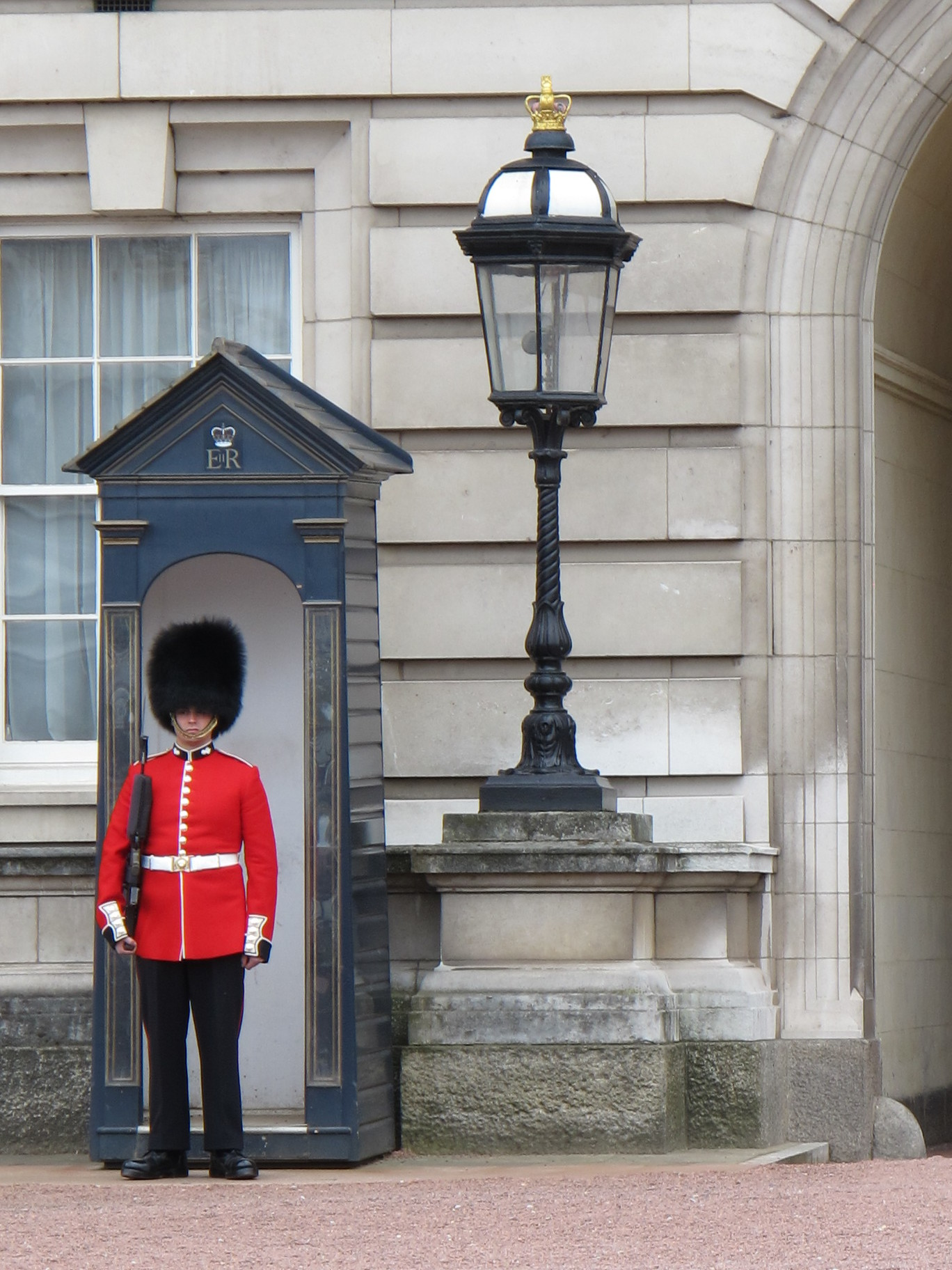 Europe London England Europe 2013 United Kingdom Buckingham Palace Grenadier Guards Queen's Guard architecture arch